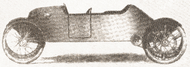 1914 Real Cyclecar